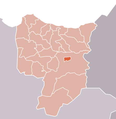 Driouch, driouch province, morocco2